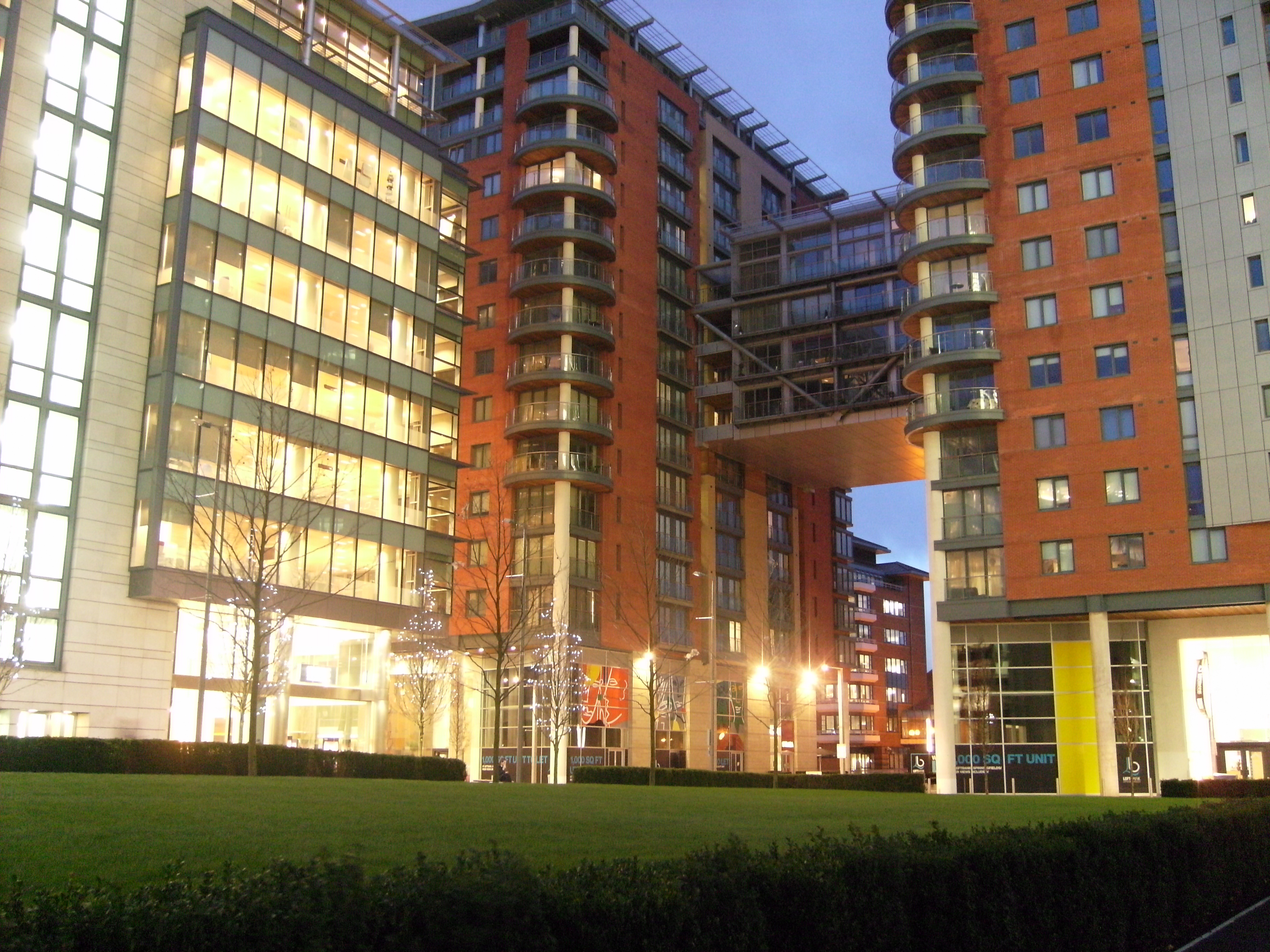 Image of Hardman Boulevard in Manchester, England